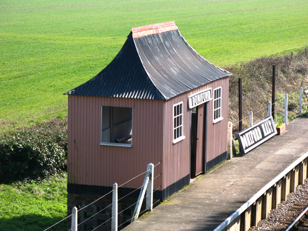 Doniford Halt on the West Somerset Railway. The former Great Western Railway corrugated iron 'pagoda' waiting hut was salvaged from Cove Halt in Devon.